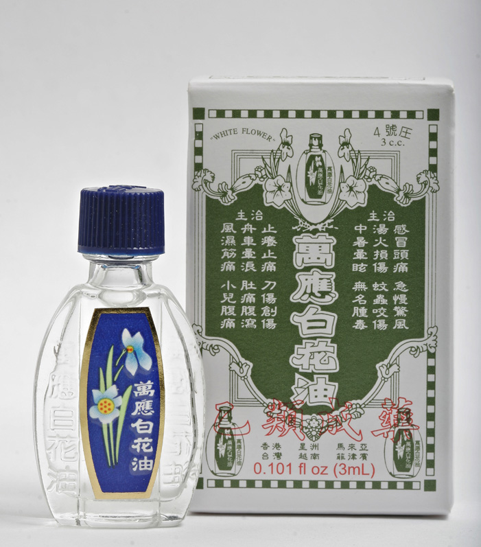 WanIn White Flower Oil